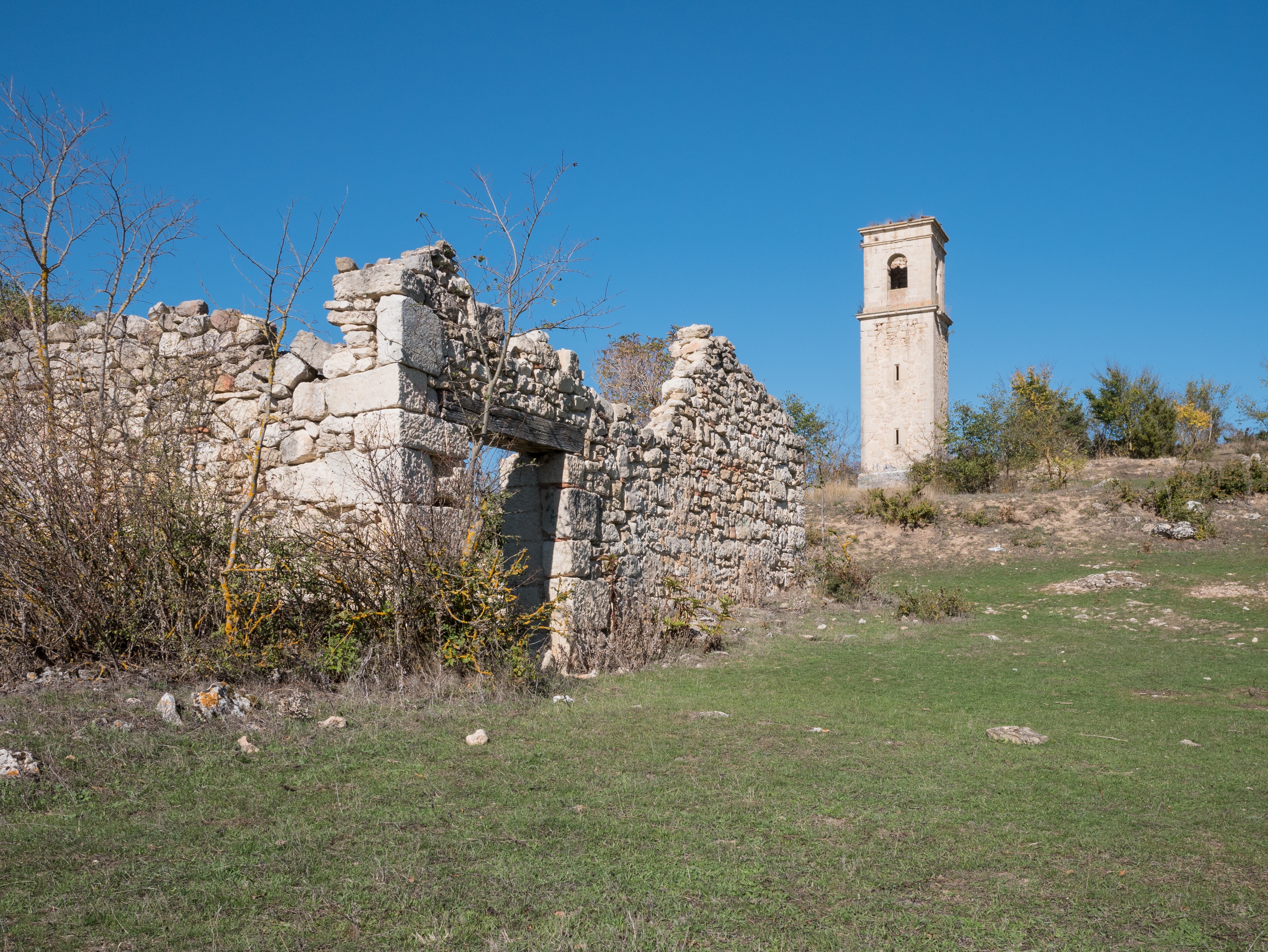 Ruins of a house and the bell tower in Otxate. Treviño County, Spain